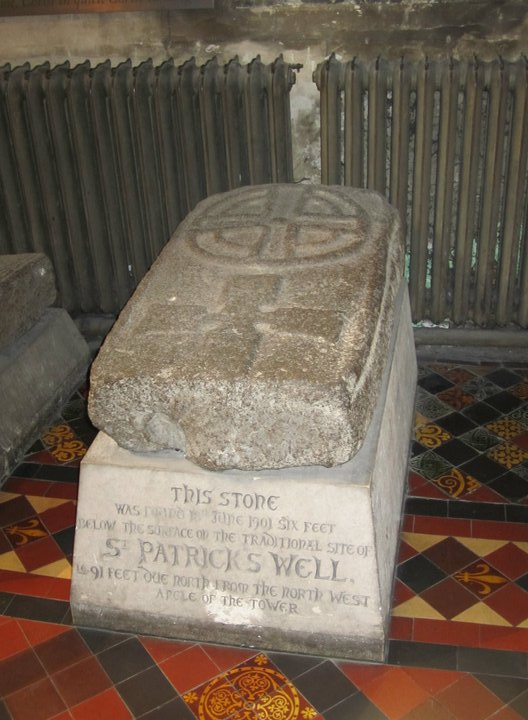 Photo taken at St. Patrick's Cathedral, Dublin, Ireland.